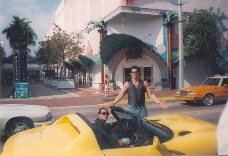 Sergio Kato and Jade Roberts worked together in "Legends in Concert", Miami Beach, Florida